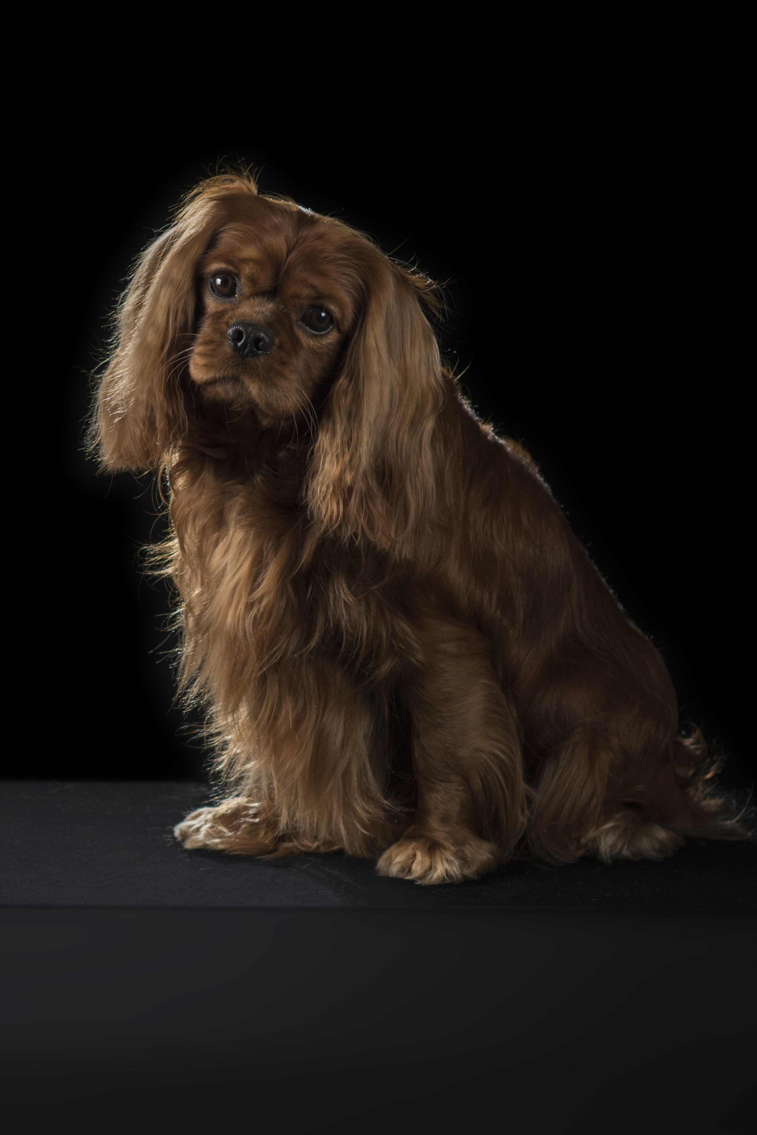 Cavalier King Charles Spaniel Ch. Jewelcroft's Going Concern CGN CD RA. Example of correct Ruby coat colour.